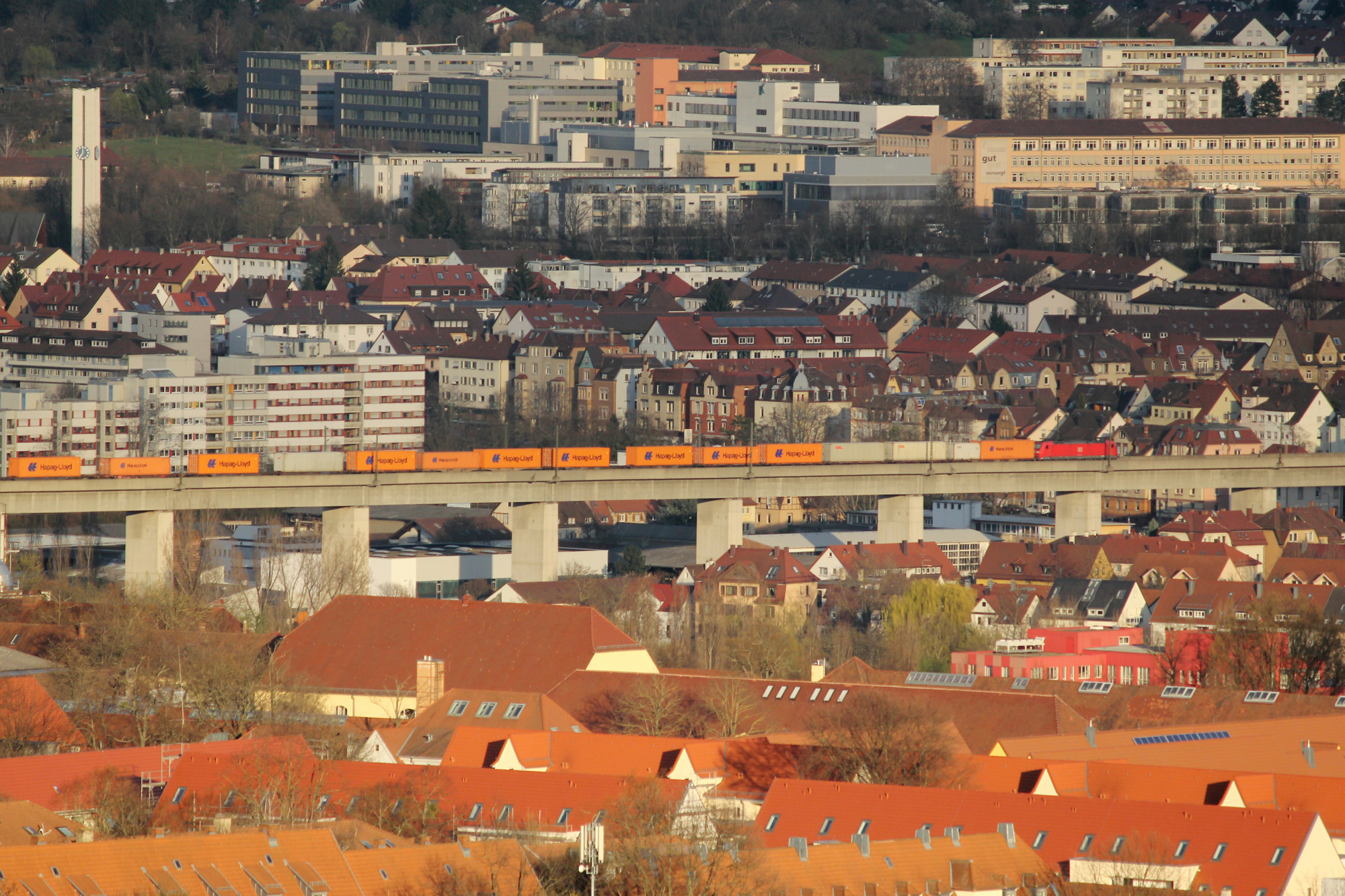 Railway bridge along the Schusterbahn, spanning over Neckar river in Stuttgart